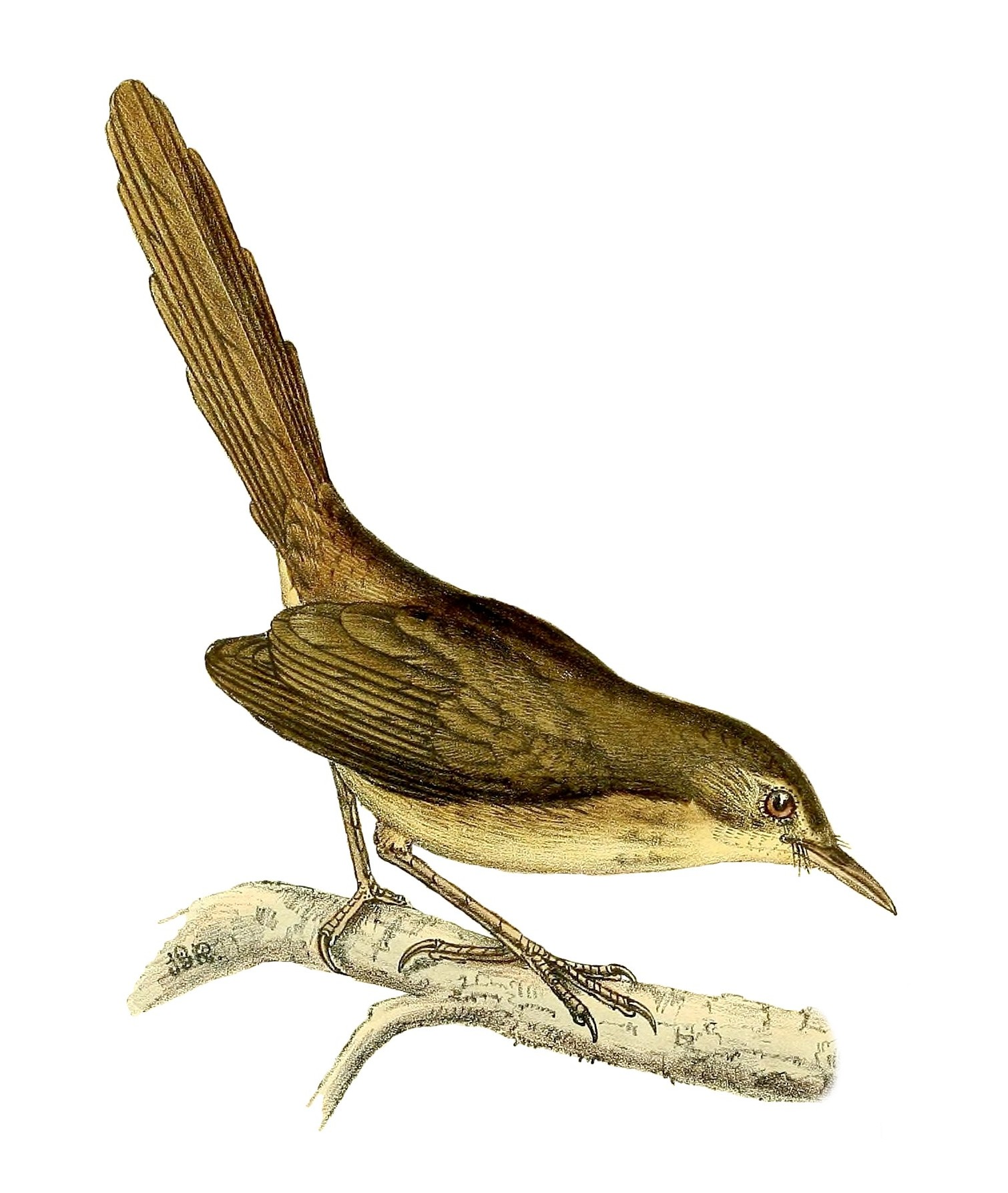 Drymoica ellisia = Nesillas typica typica (Subspecies of Madagascar Brush-warbler)